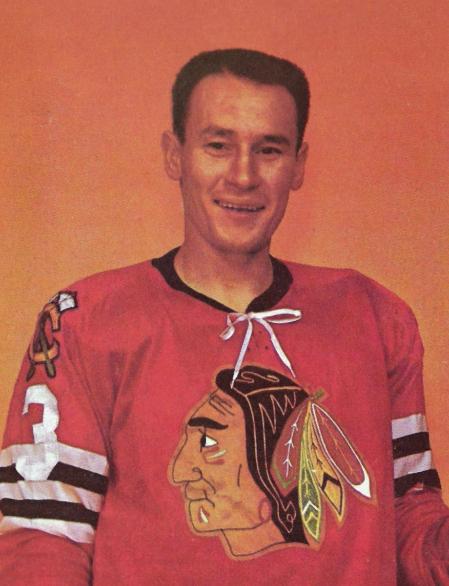 Trading card photo of Pierre Pilote as a member of the Chicago Blackhawks. These cards were printed on the backs of Chex cereal boxes in the US and Canada from 1963 to 1965. Those collecting the cards cut them from the back of the boxes. Pilote's card at PSA.